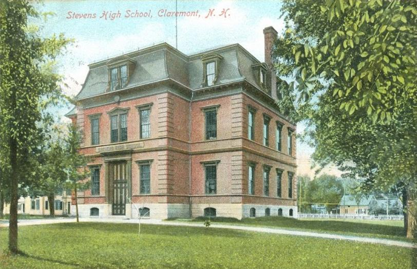 Stevens High School, Claremont, New Hampshire. Built with a gift from Paran Stevens, it opened on September 7, 1868. This shows the school before the enlargement of 1909.